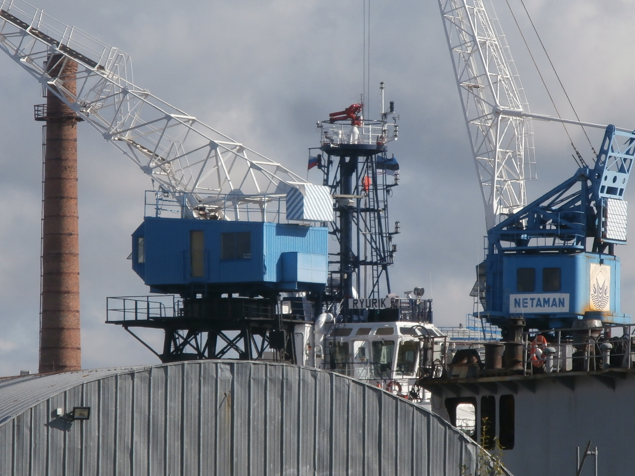 Ryurik top, Lahesuu sadam Tallinn 21 September 2016